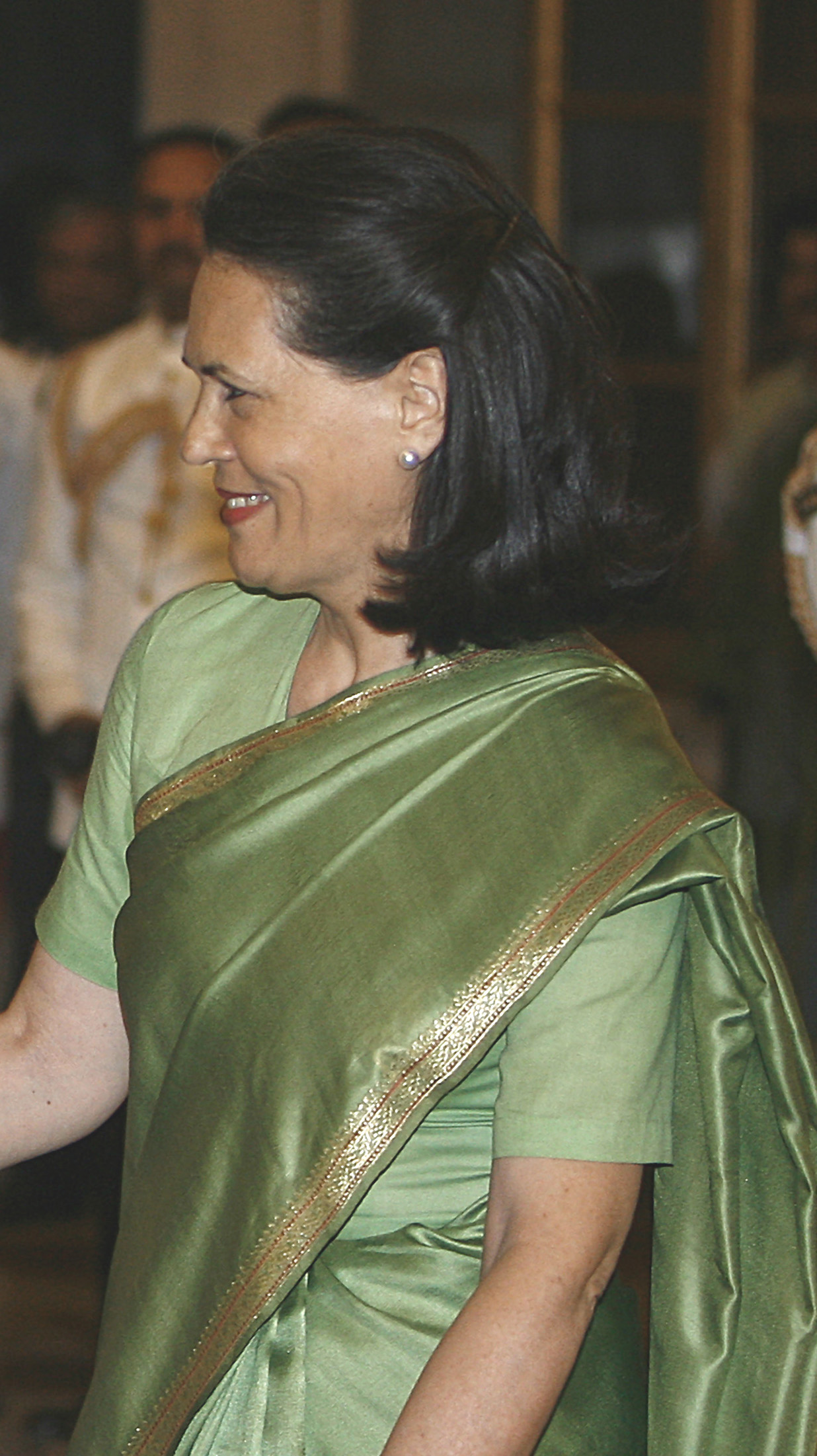 Sonia Gandhi, Indian politician, president of the Indian National Congress and the widow of former Prime Minister of India, Rajiv Gandhi..